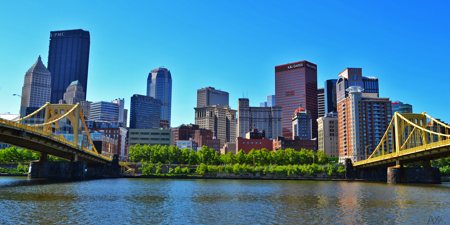 This is a photo of downtown Pittsburgh from the North Shore.